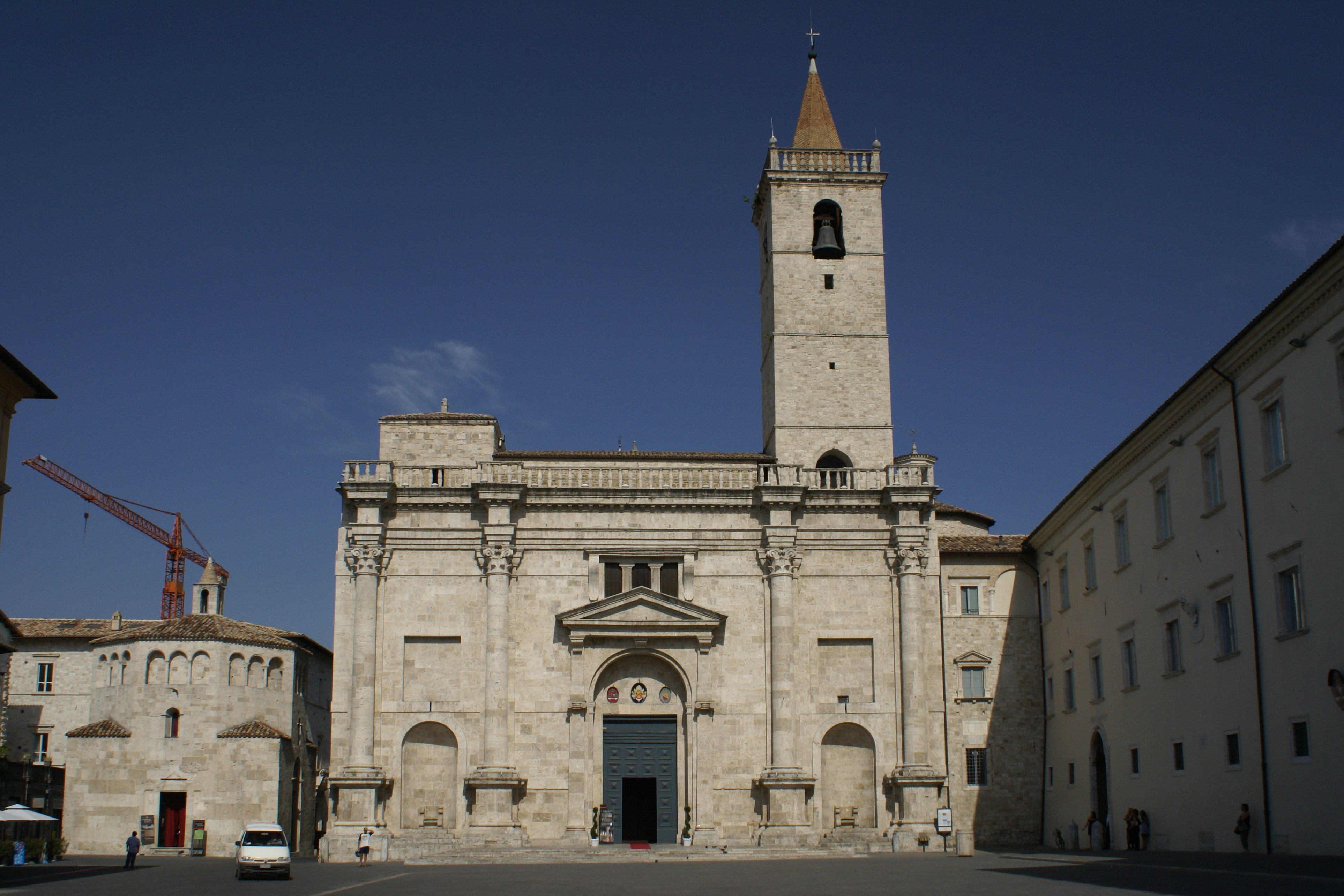 The Cattedrale di San Emidio (Cathedral of Saint Emygdius) on the Piazza Arringo in Ascoli Piceno, Italy.